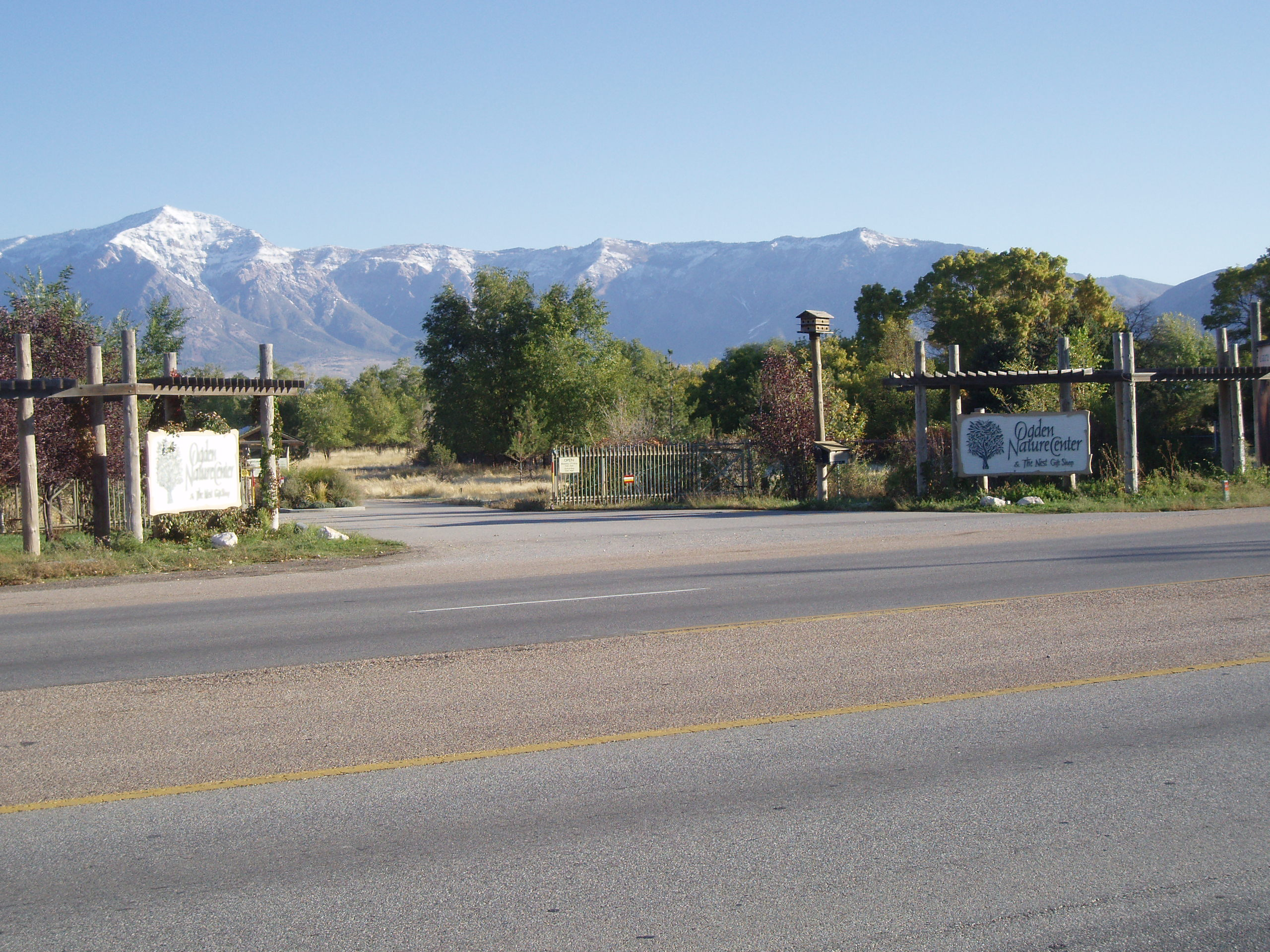 The entrance to the Ogden Nature Center in Ogden, Utah, United States